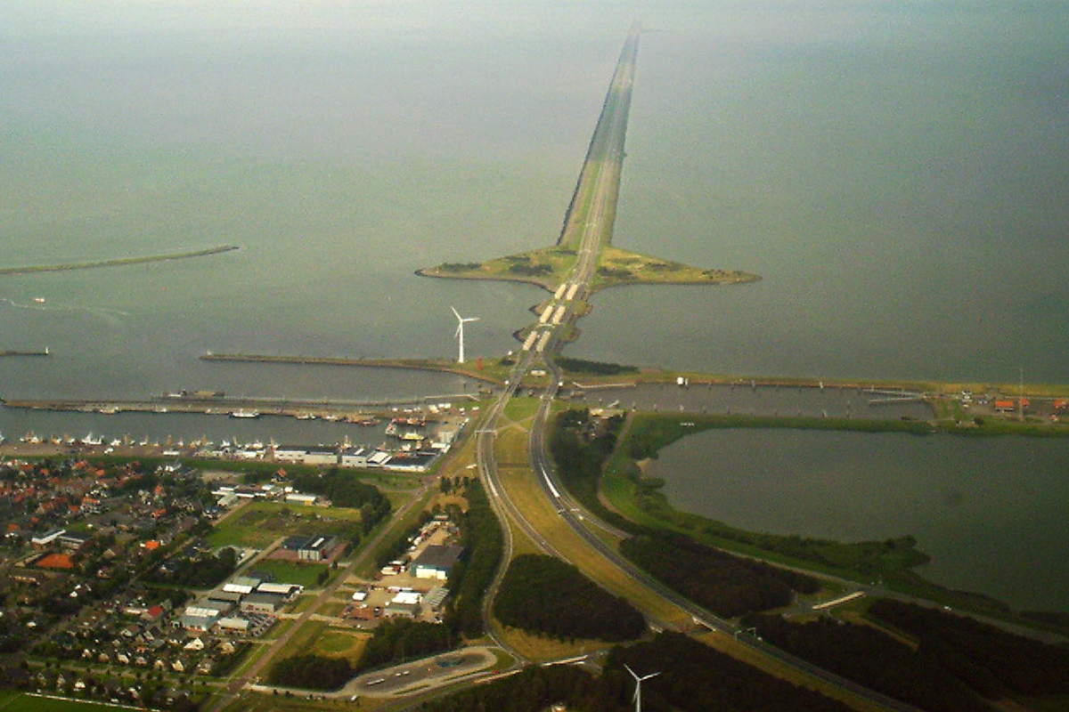 Afsluitdijk in the Netherlands from Noord-Holland in direction east